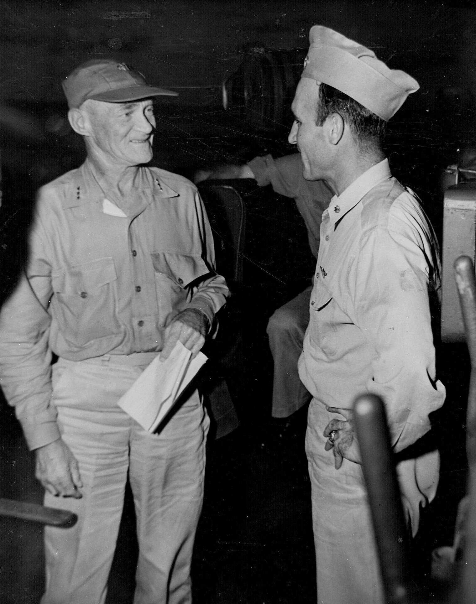 Admiral Mitscher speaking with commander David McCampbell.